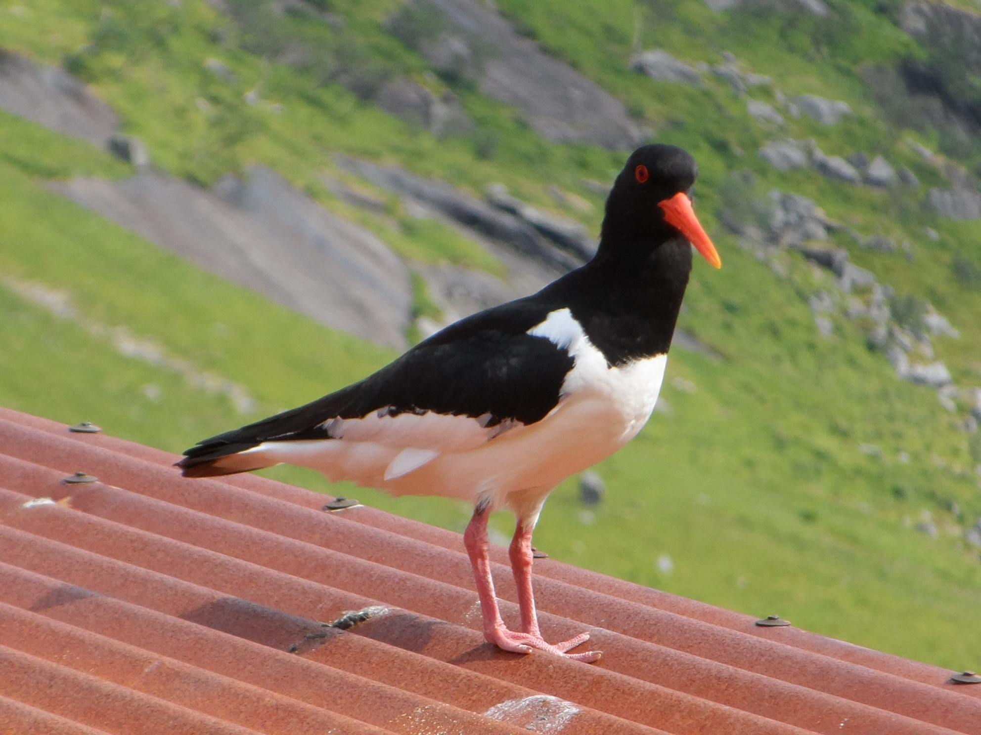 Eurasian Oystercatcher in Reine, Lofoten, Norway